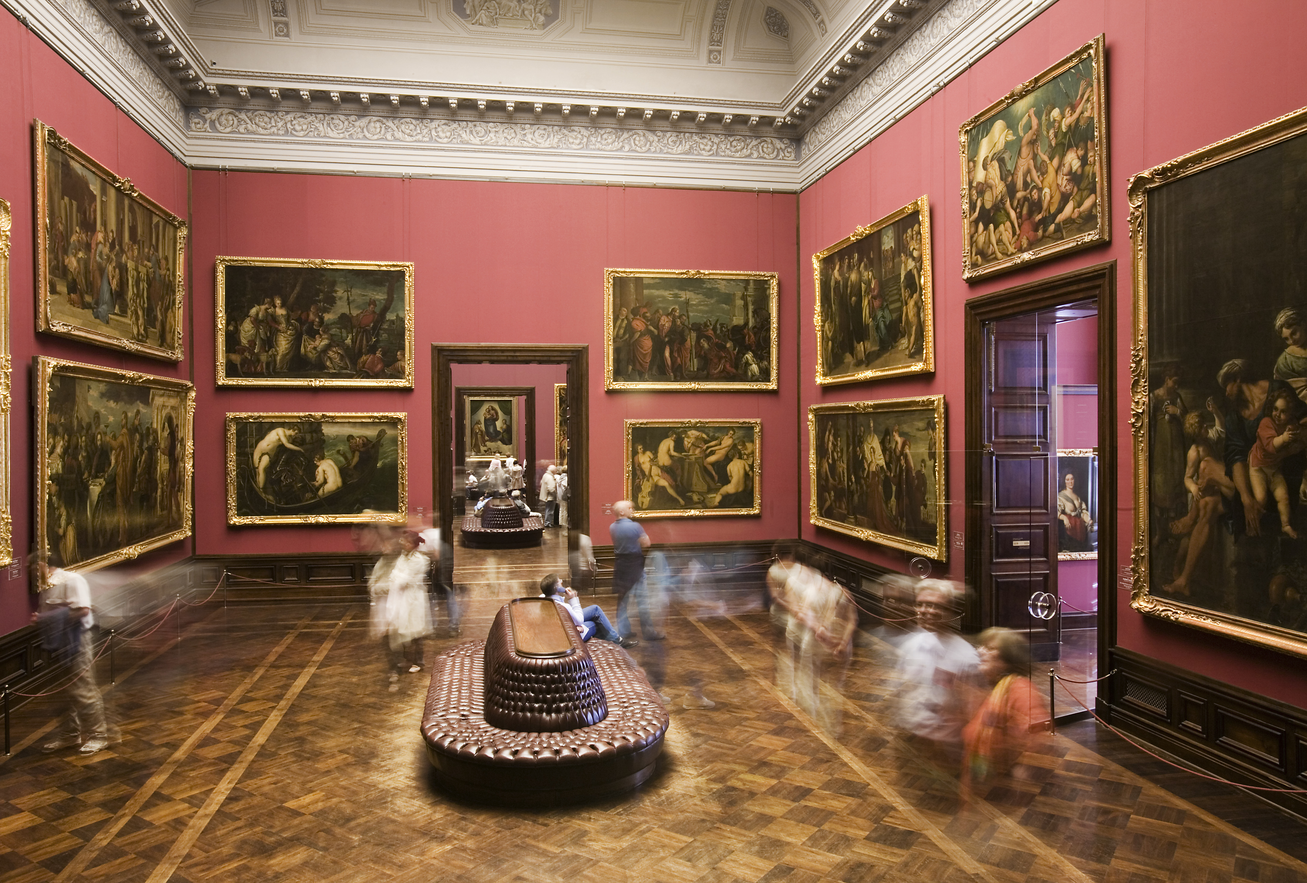 Art gallery. Gemaldegalerie Alte Meister in the Dresdner Zwinger Museum. Dresden, Germany